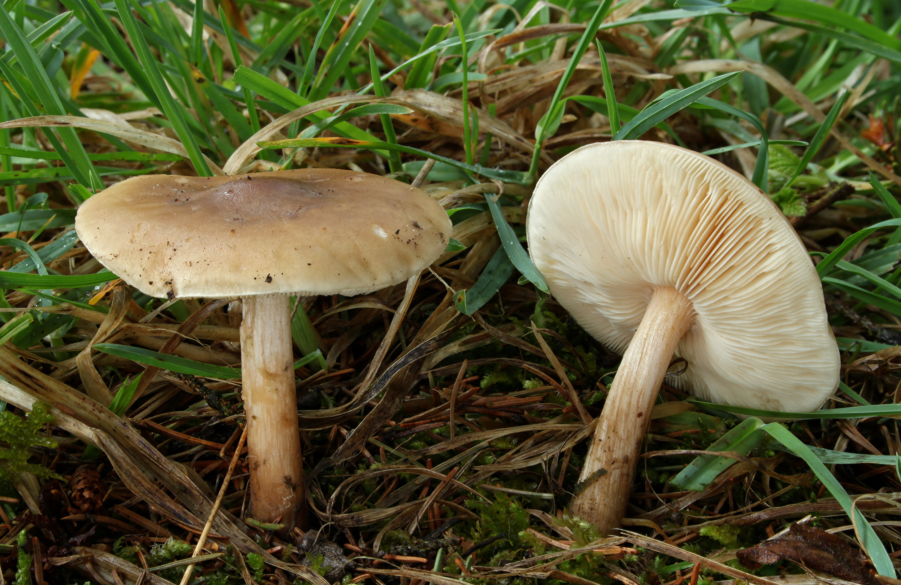 Melanoleuca cognata, Family: Tricholomataceae, Location: Germany, Ulm, Eggingen